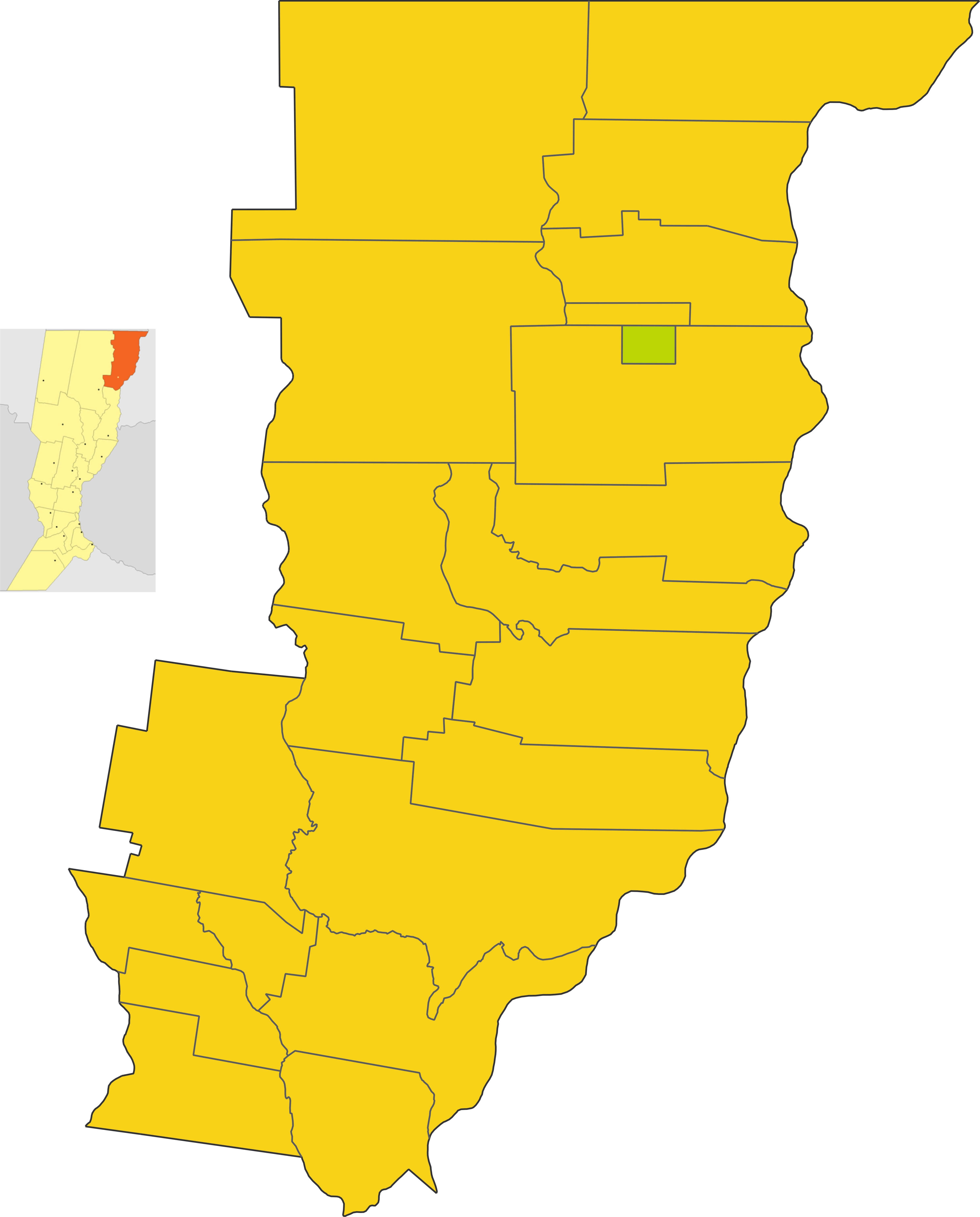 Map of the communa de Tacuarendi in General Obligado department, Santa fe province, Argentina.